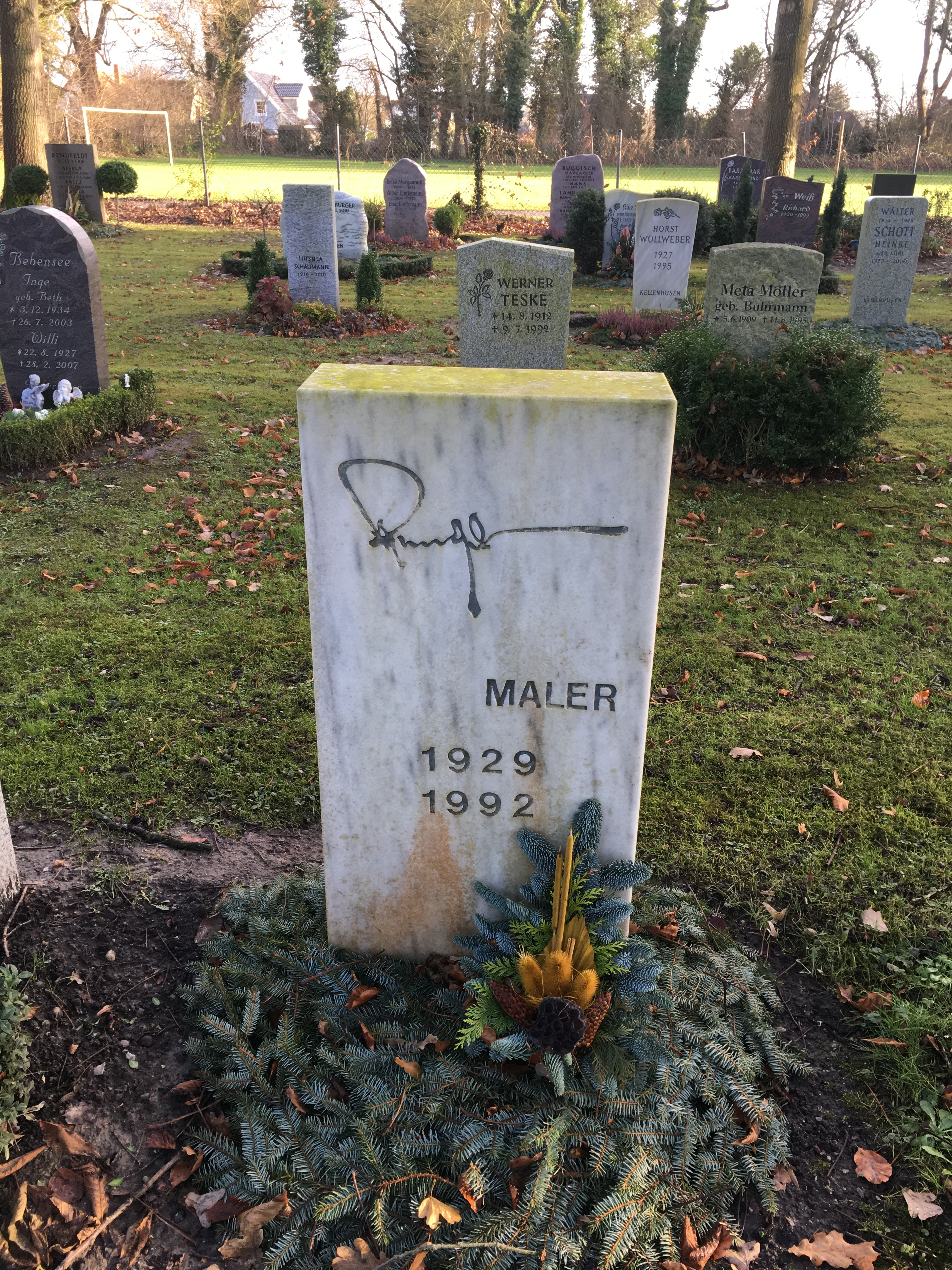 Grave of painter Jürgen Runge (1929-1992) in Cismar.